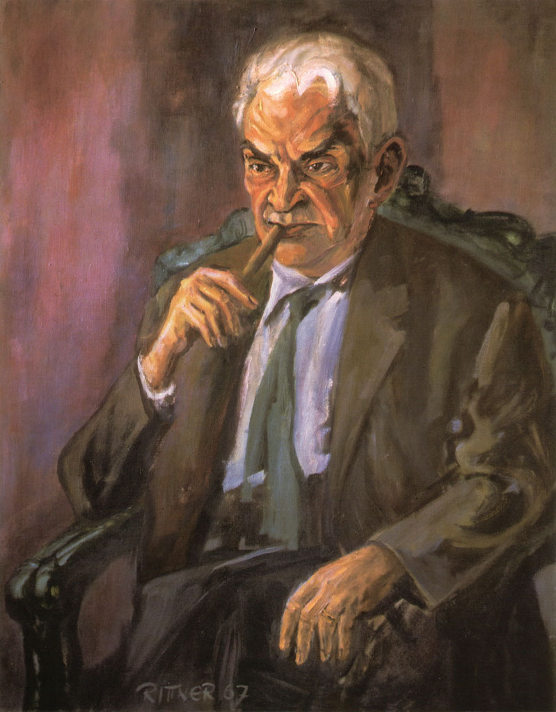 Painting of the Austrian actor Fritz Kortner